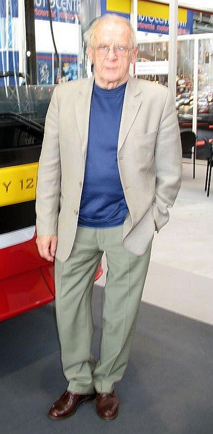 Sobiesław Zasada in Kielce, Poland. Transexpo 2010.